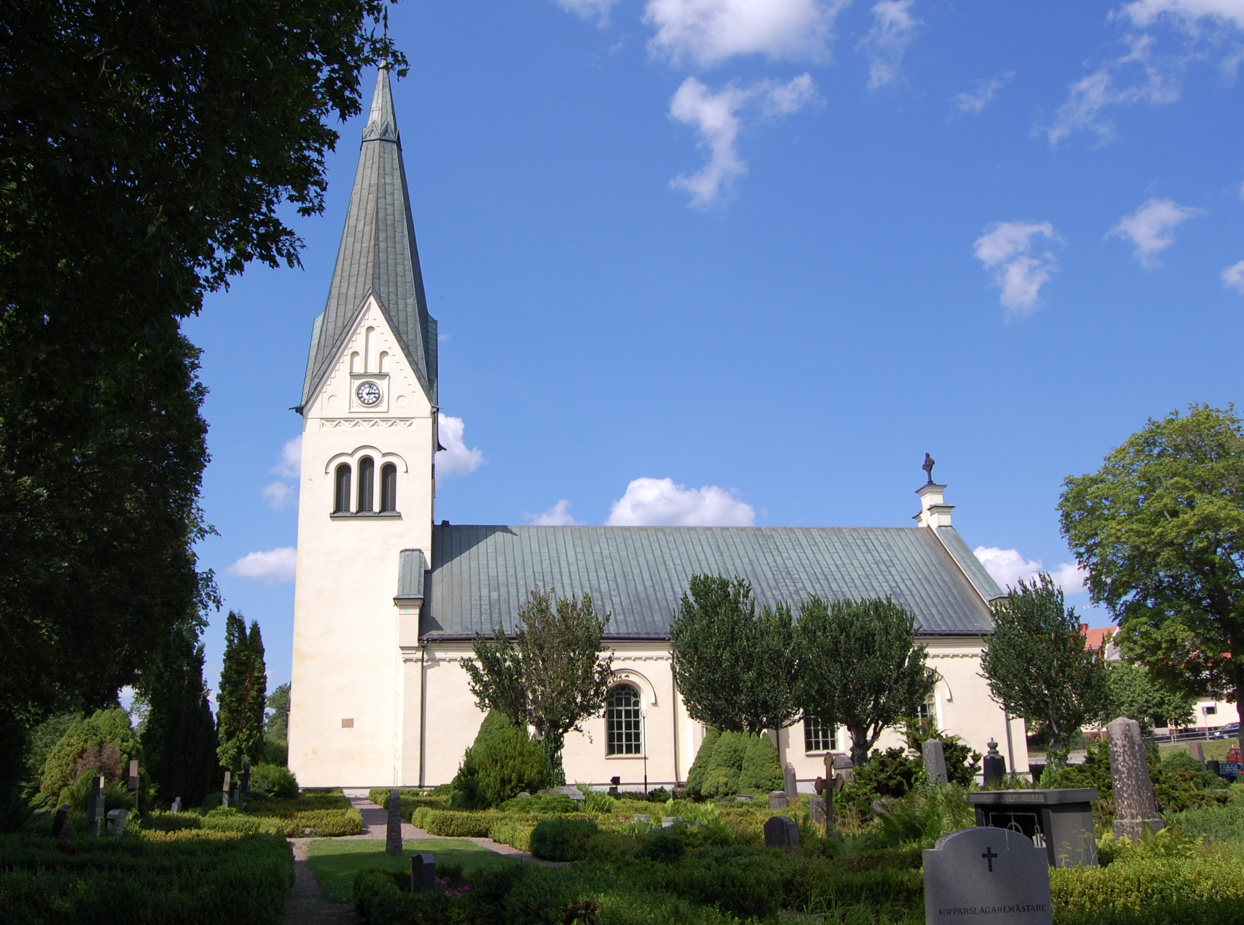 Högsby Church.Exterior.